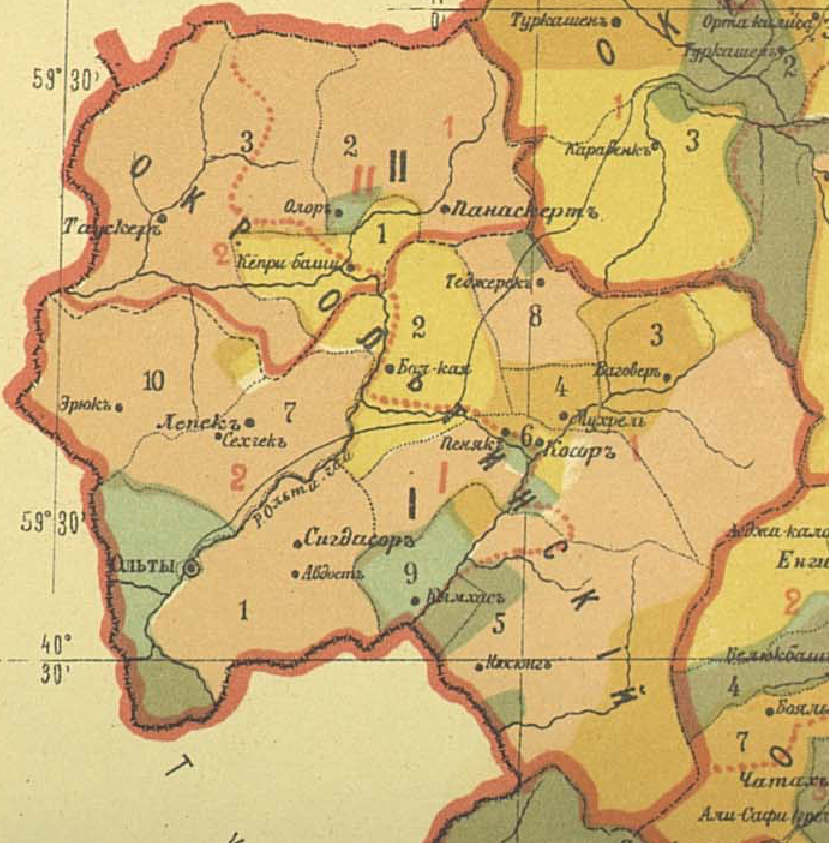 Ethnographic map of the Oltu OkrugAzərbaycanca: Oltu dairəsinin etnoqrafik xəritəsi